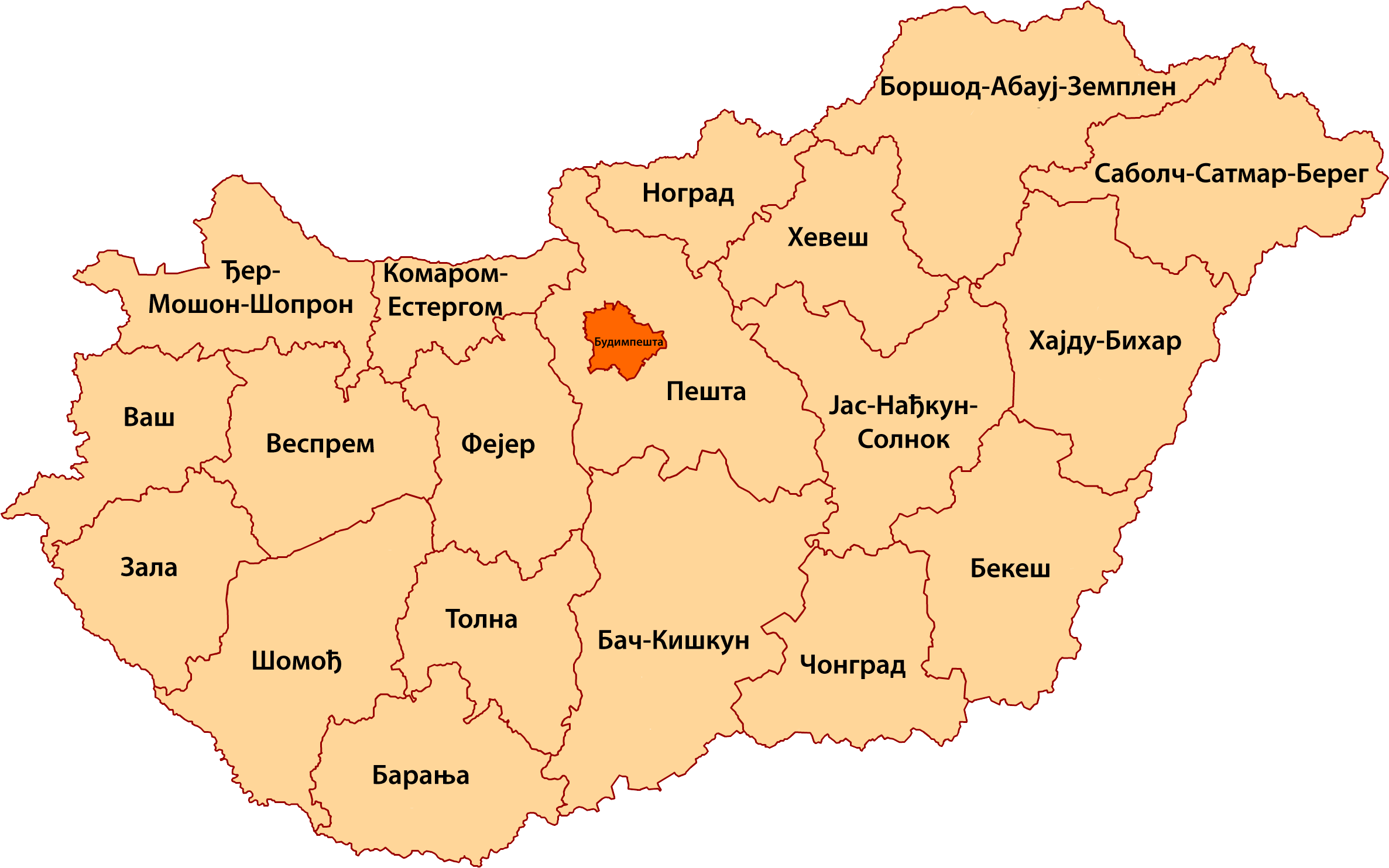 Counties of Hungary